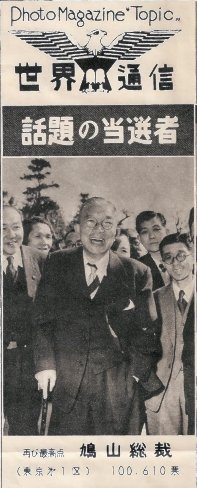 ichiro hatoyama